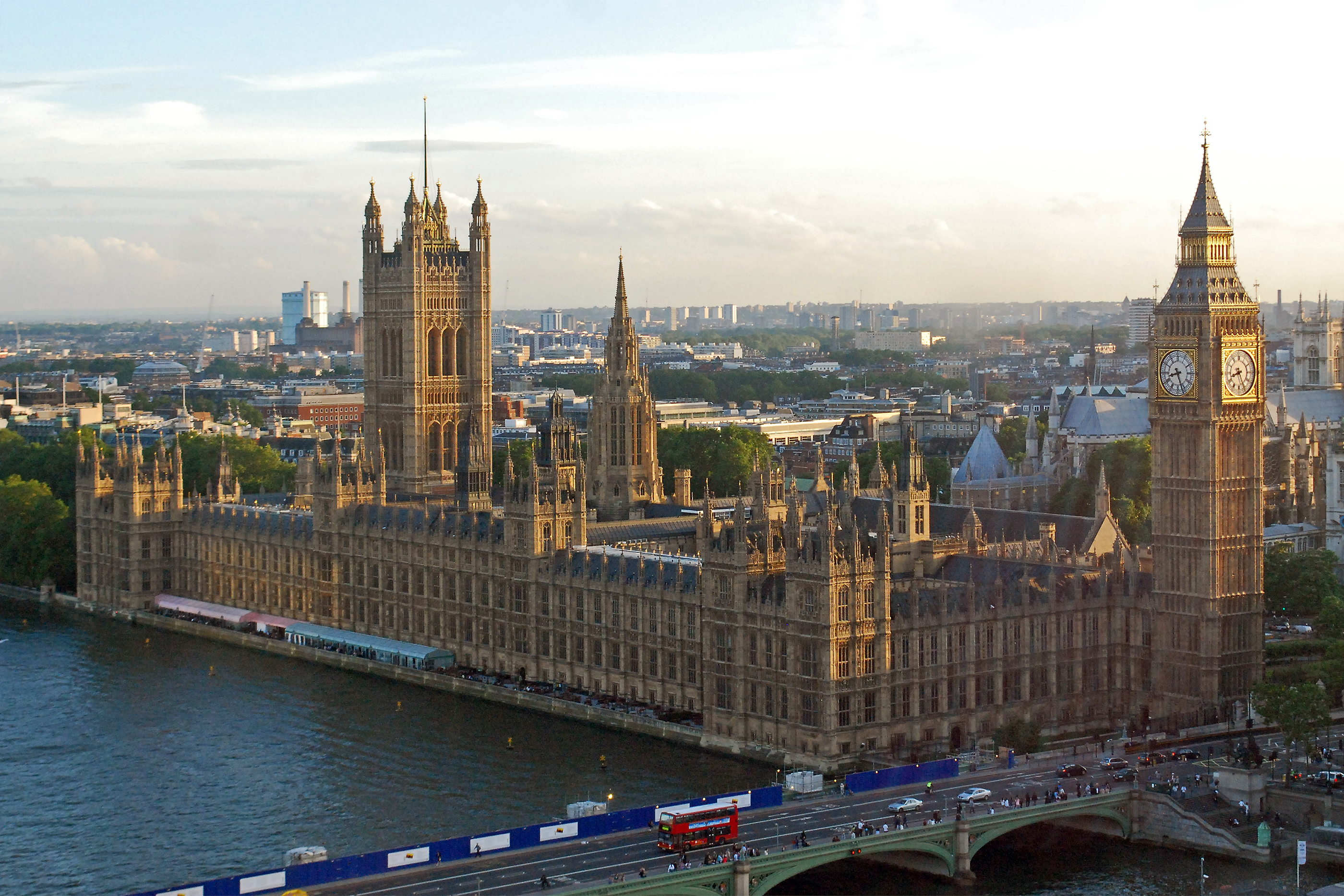 Palace of Westminster as seen from the London Eye.